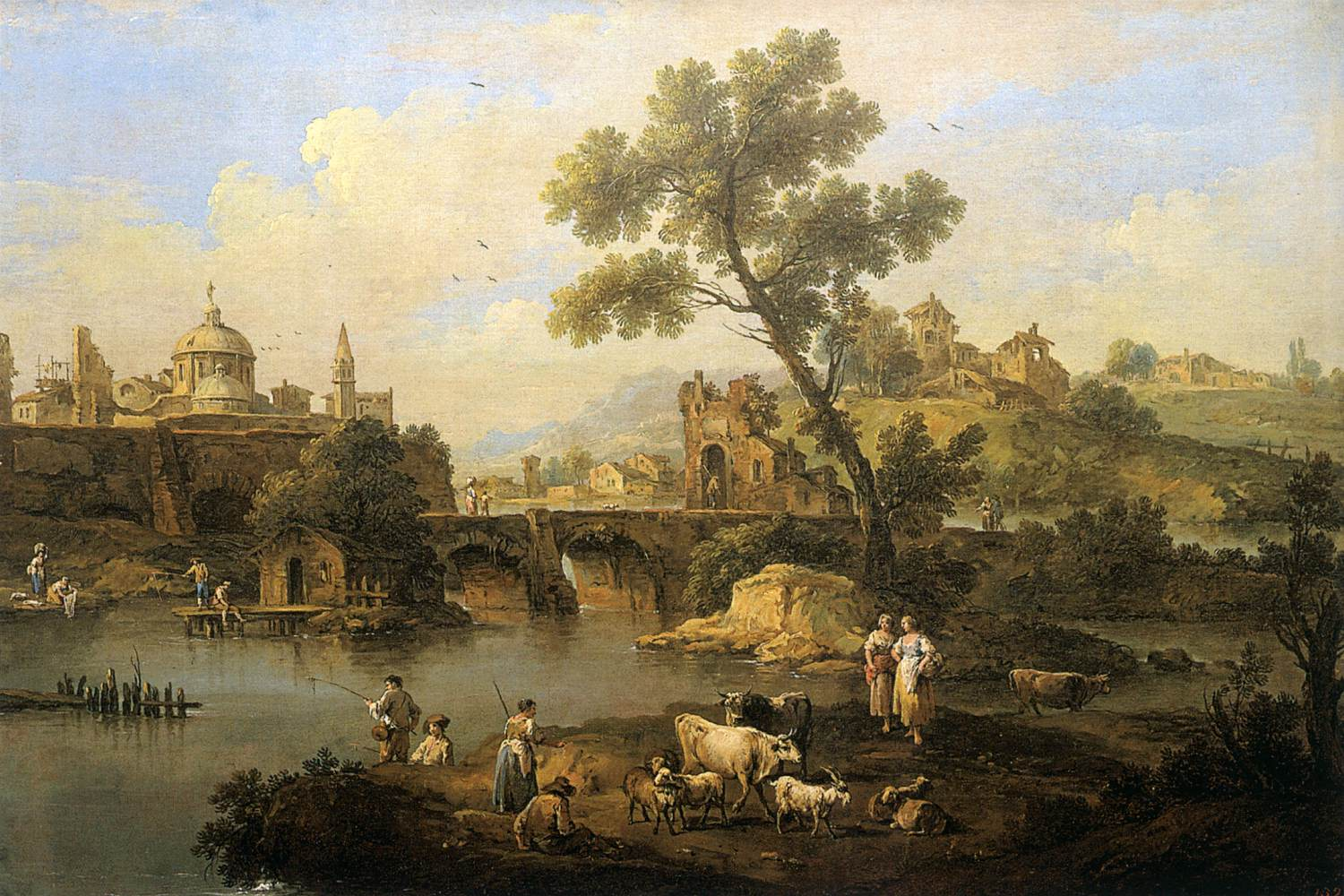 Landscape with River and Bridge.